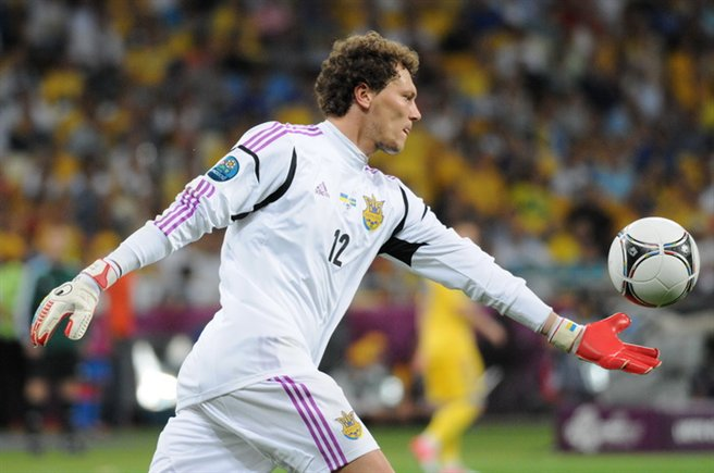 UEFA Euro 2012 match between Ukraine and Sweden that took place in Kiev. Final result was 2:1 (2xShevchenko - Ibrahimović)